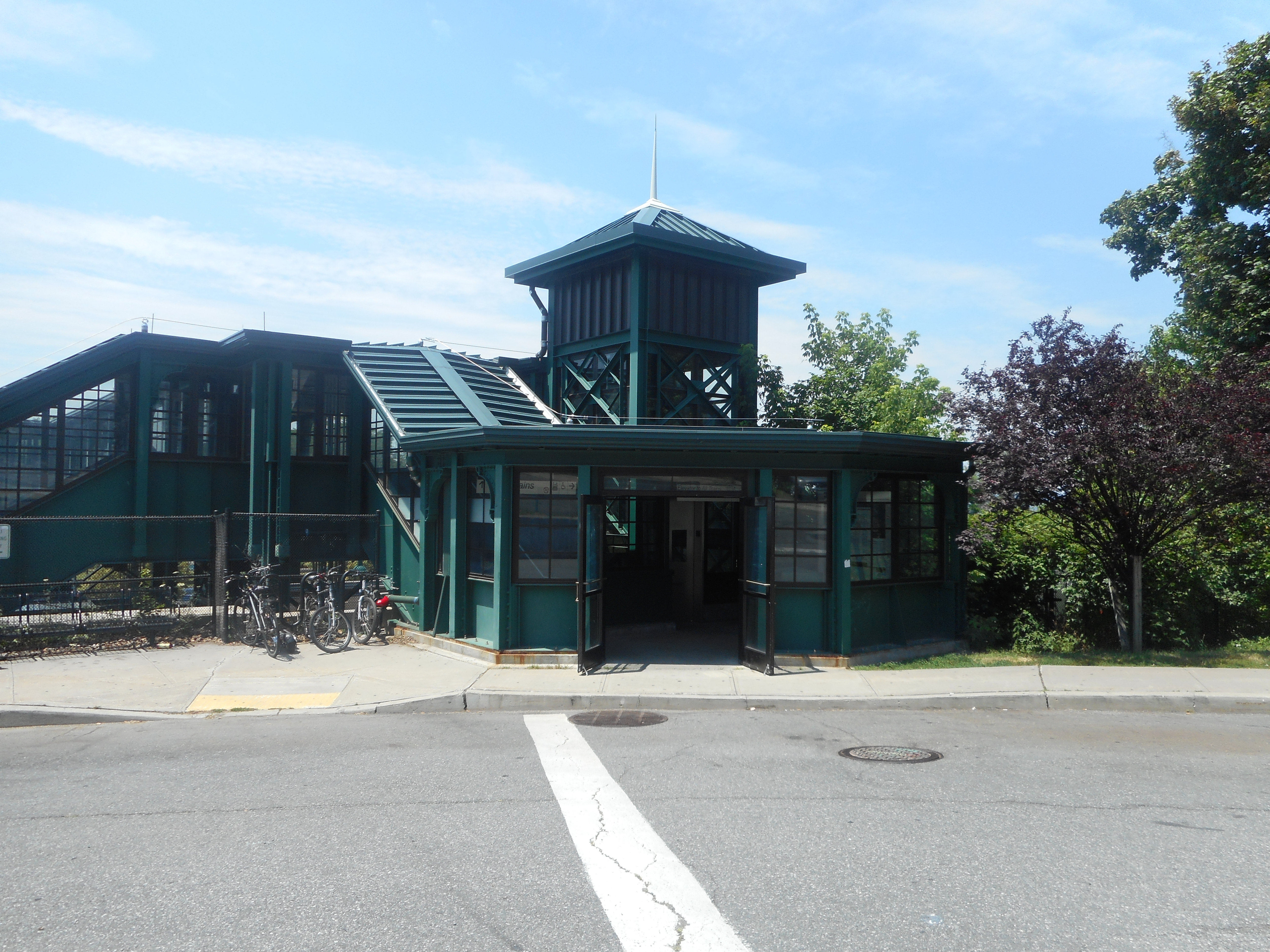 The eastern entrance to the footbridge over the Dobbs Ferry Metro-North station on the Metro-North Hudson Line in Dobbs Ferry, New York. This is at the north end of Station Plaza near Palisades Street. Note also the bicycle racks next to the entrance.